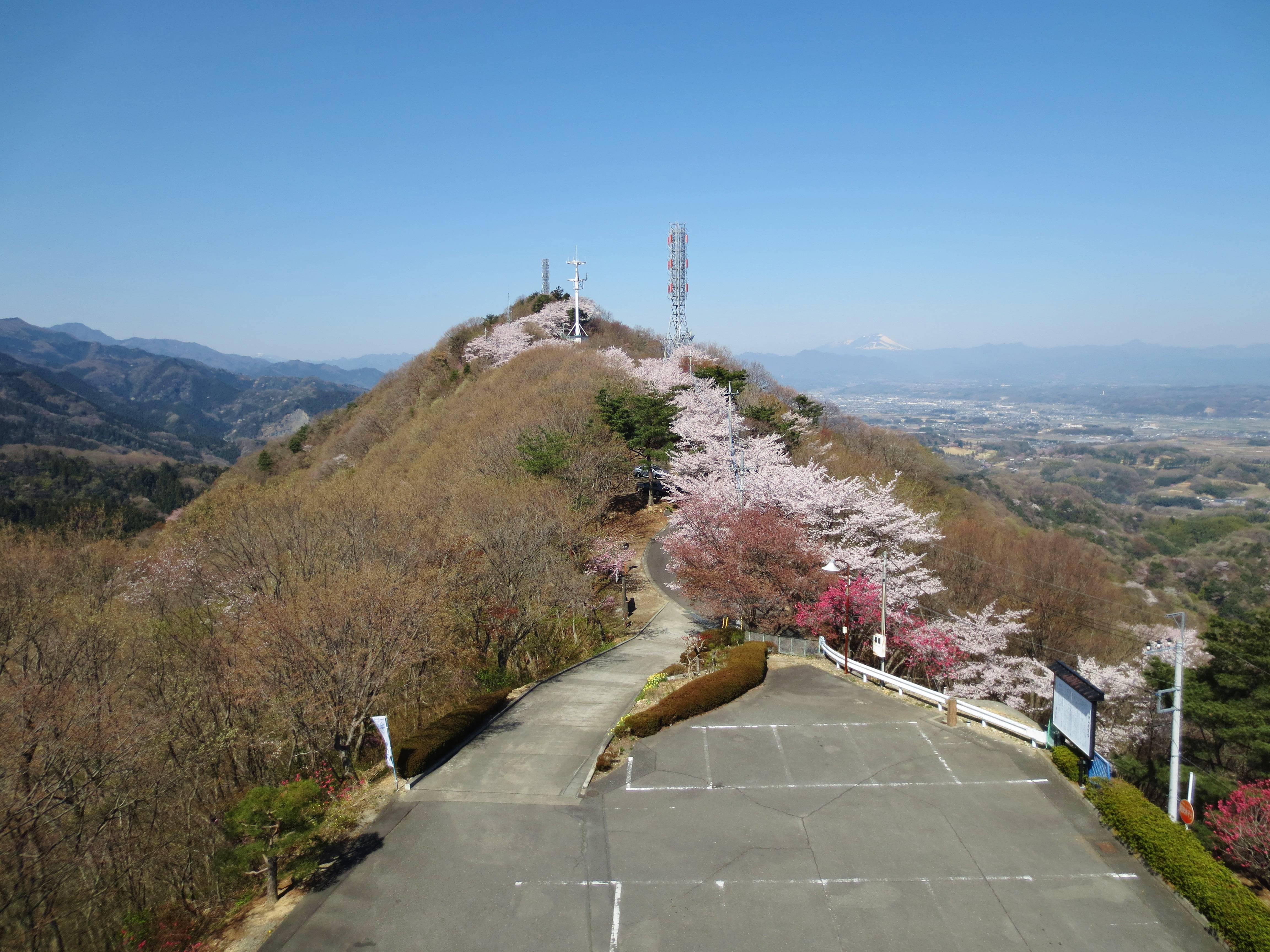 Mount Ushibuse (Takasaki, Gunma).